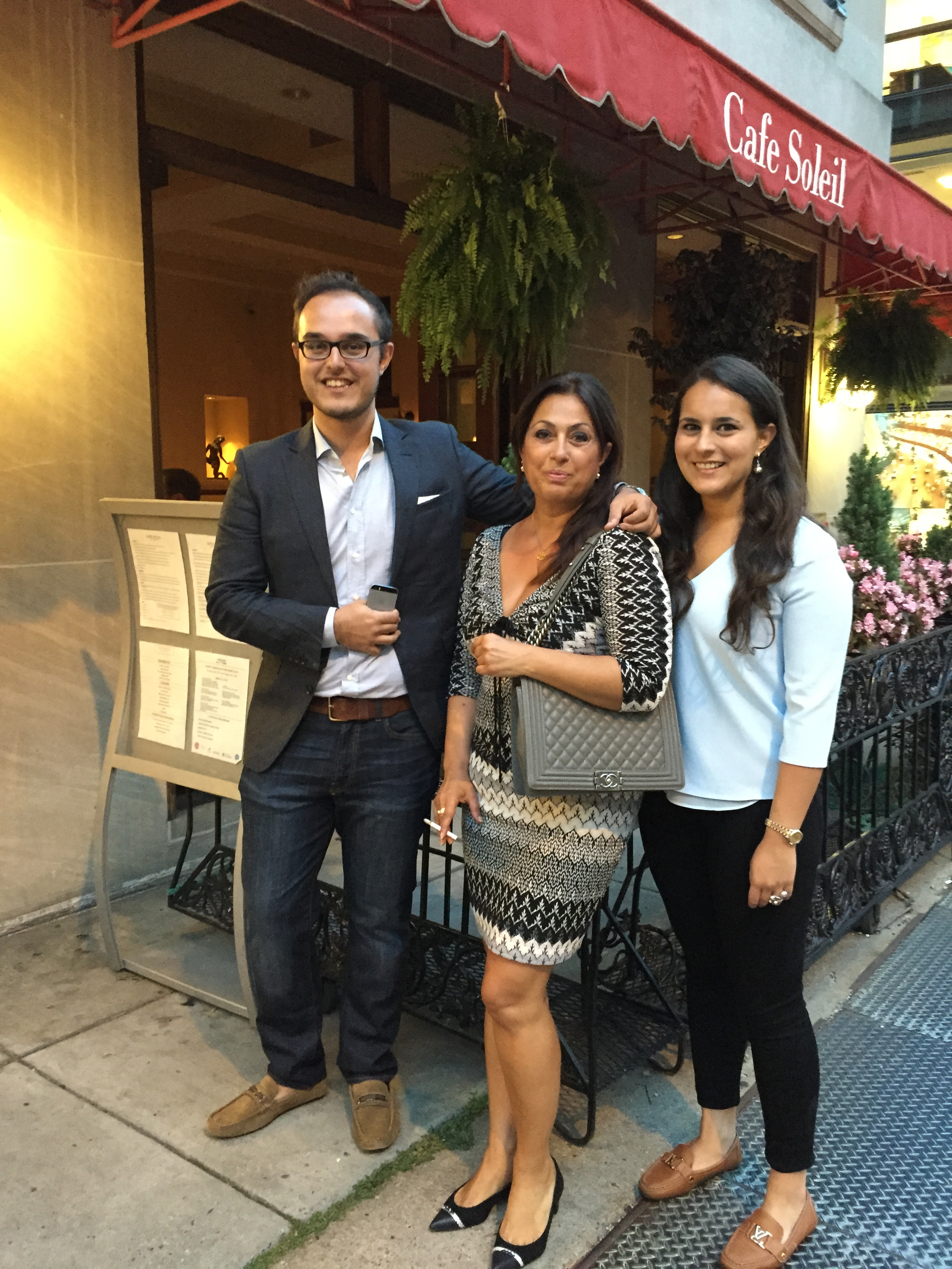 Sevgi Sabanci